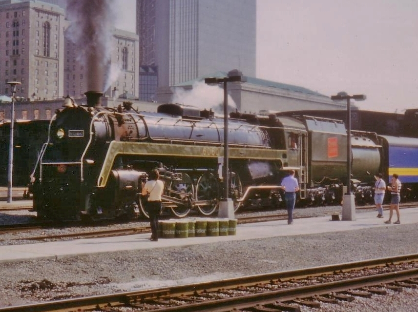 Canadian National No 6060 leaving Union Station on the last steam train to leave that station. Canadian National Railways U-1-f class locomotives, were a class of twenty 4-8-2 or Mountain type locomotives built by Montreal Locomotive Works in 1944. They were numbered 6060–6079 by CN and nicknamed “Bullet Nose Bettys” due to their distinctive cone-shape smokebox door cover.